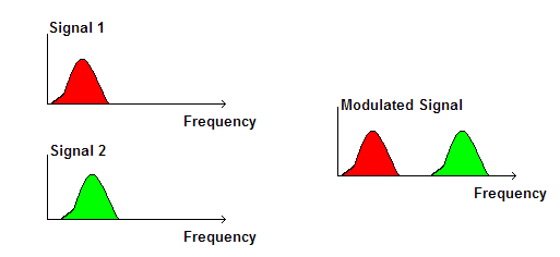 Schematische voorstelling Frequency-division multiplexing